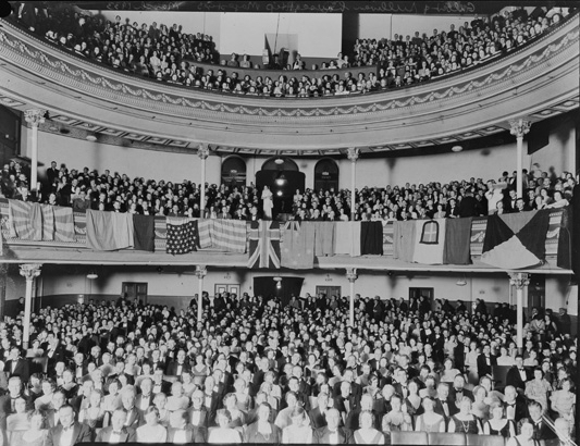 A 1933 audience to a Gilbert and Sullivan performance in His Majesty's Theatre in Perth, Western Australia.